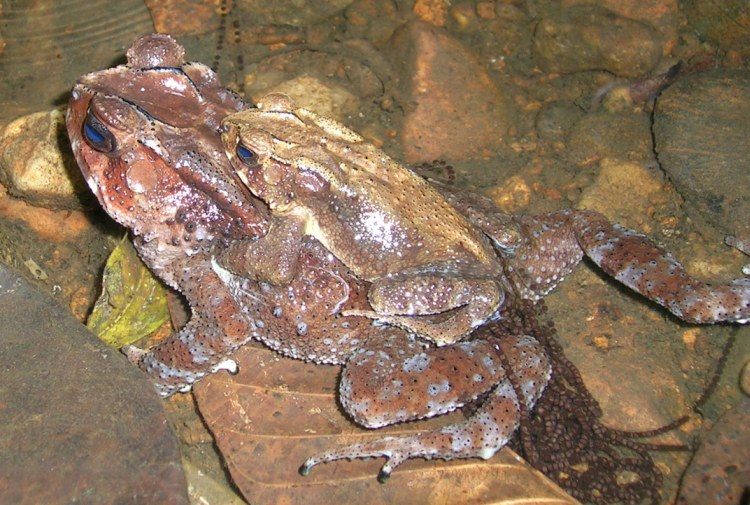 Bufo parietalis in amplexus Photograph by L. Shyamal, Wynaad, 2006